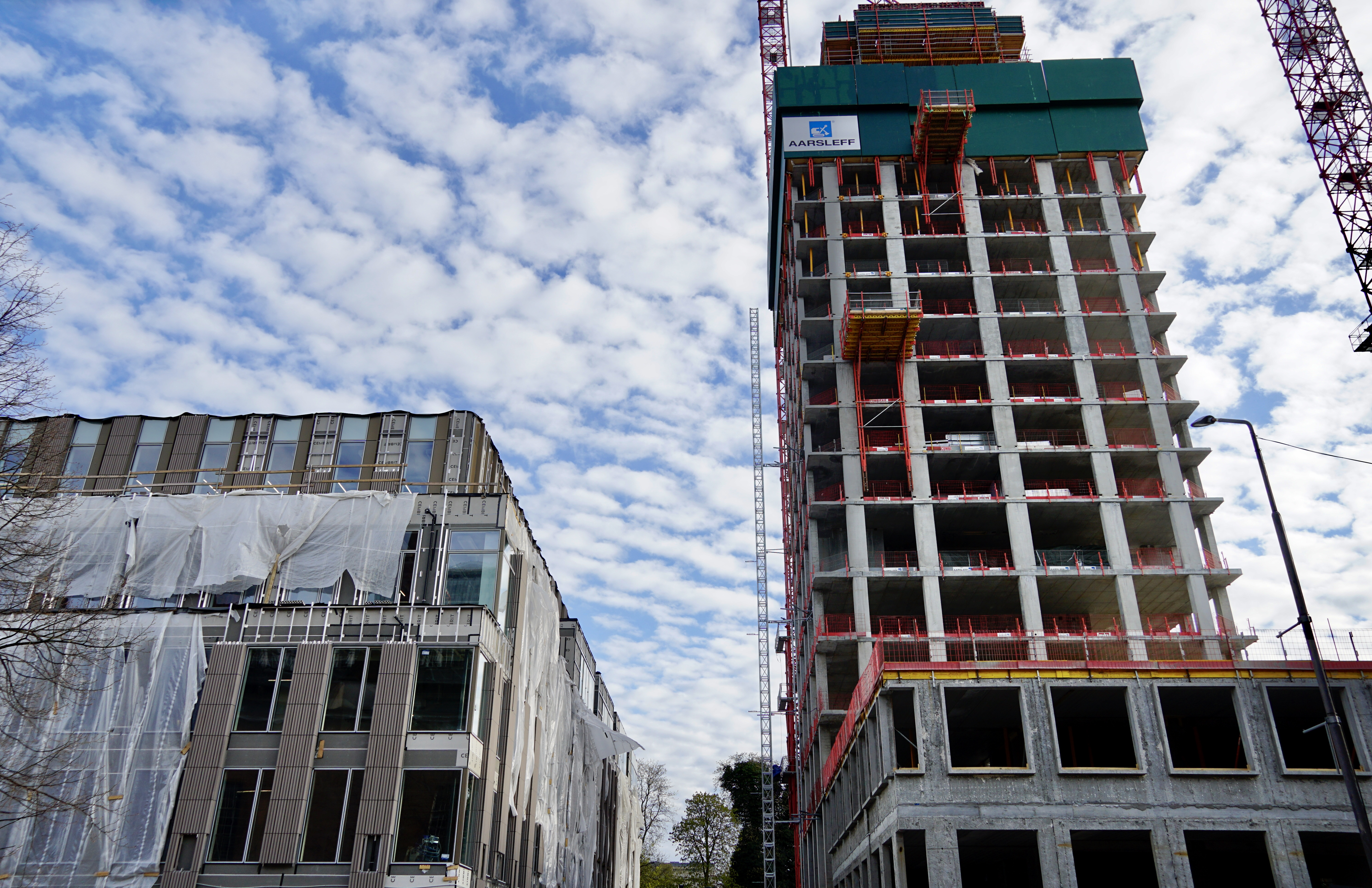 Pasteurs tower in Copenhagen under construction